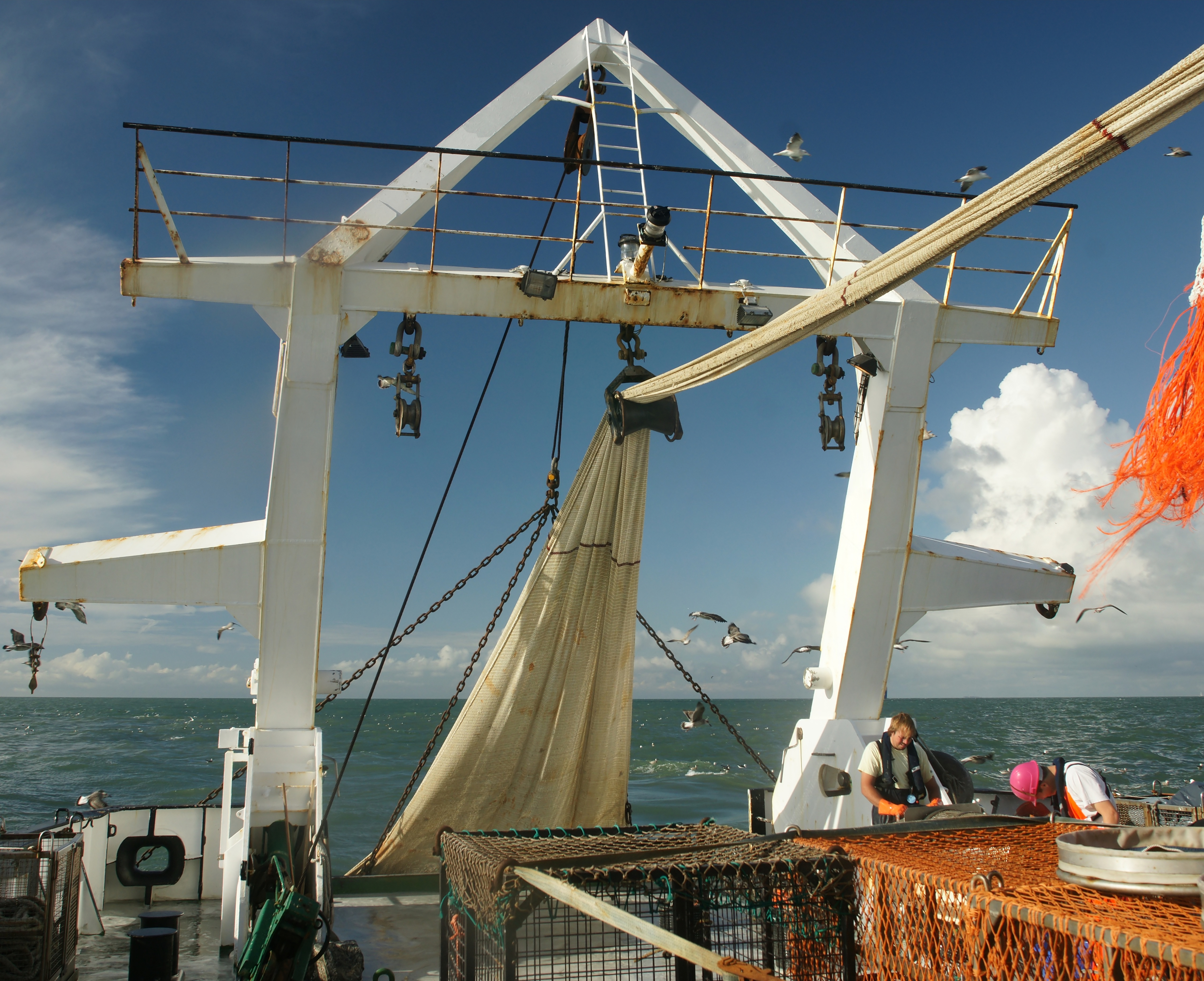 Main A-frame of the RV Belgica (A962) on dumping site S1 off Zeebrugge, Belgium.